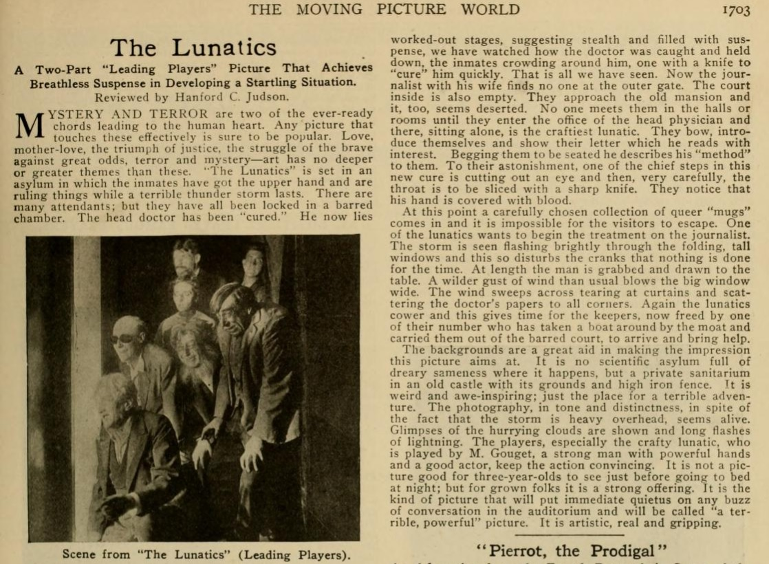 Contemporary trade review from the April-June 1914 issue of Moving Picture World, featuring a production photo of the main cast.